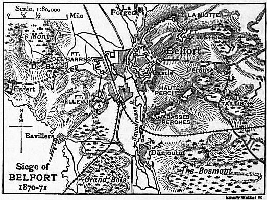 Siege of Belfort. Part of the Franco-Prussian War. Illustration from 1911 Encyclopædia Britannica, article Belfort (town)